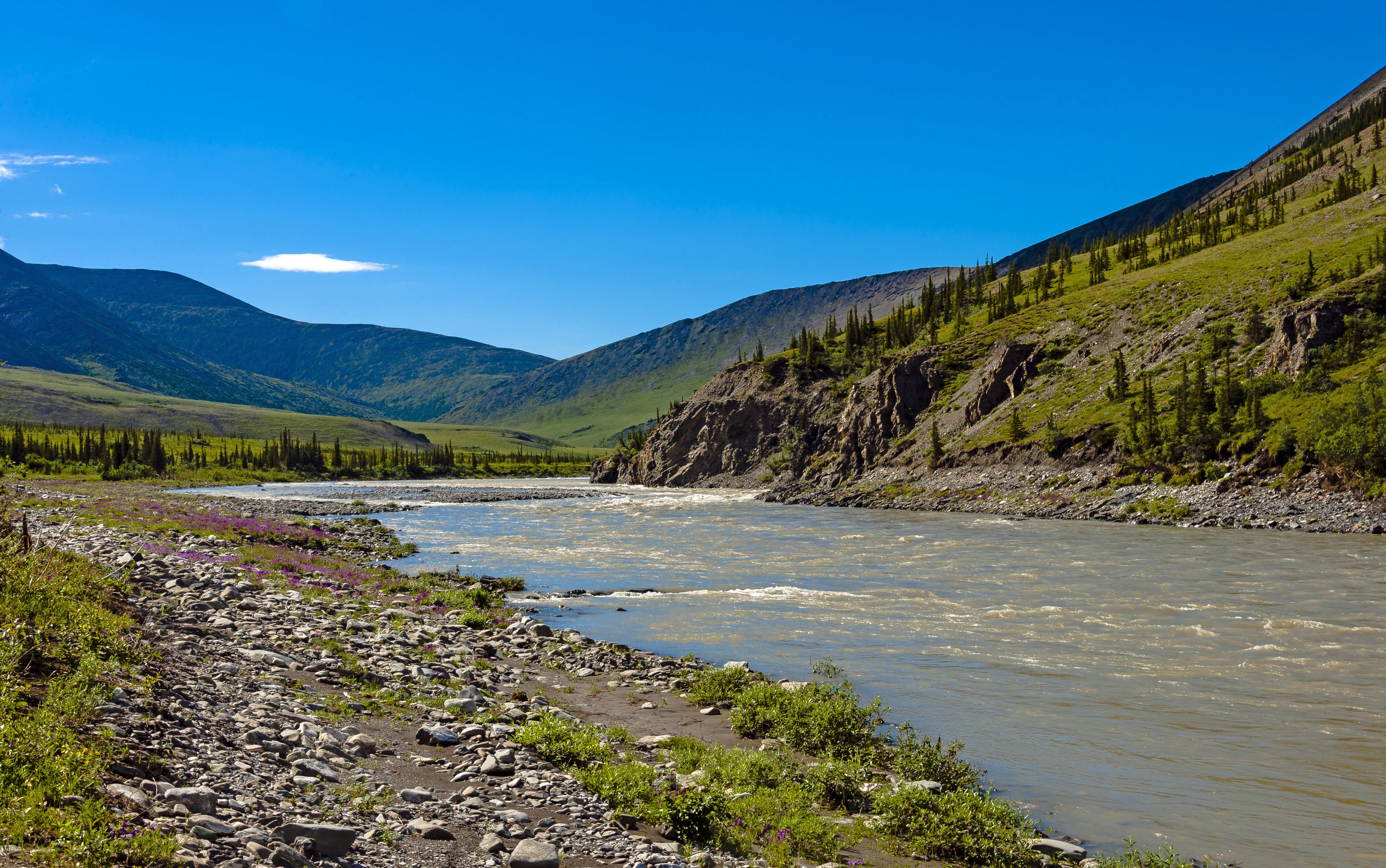 Looking up the Firth River just above its confluence with Wolf Creek in Canada's Ivvavik National Park